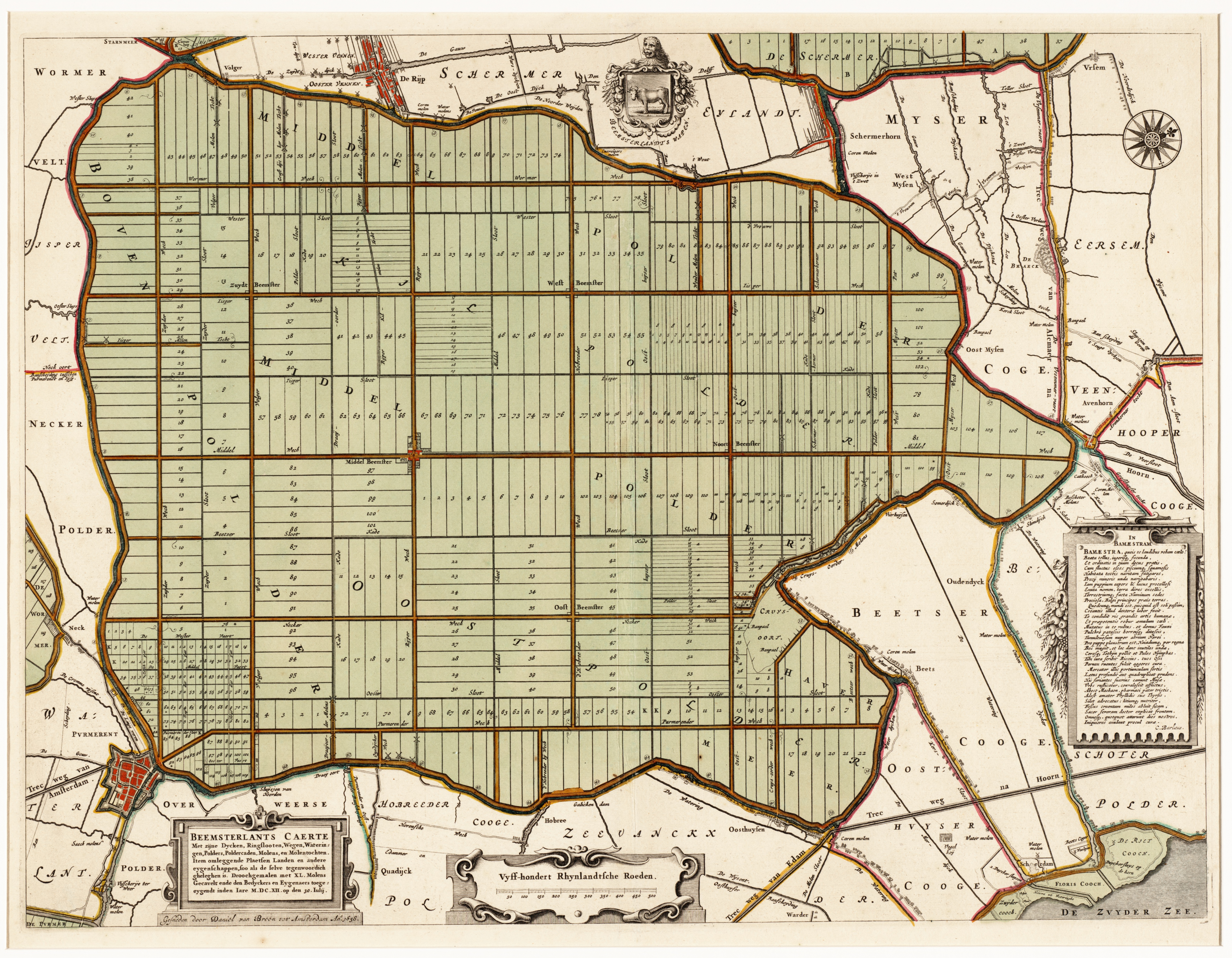 Beemsterlants Caerte, Historic map of Beemster, the Netherlands, 1658, engraver Daniël van Breen